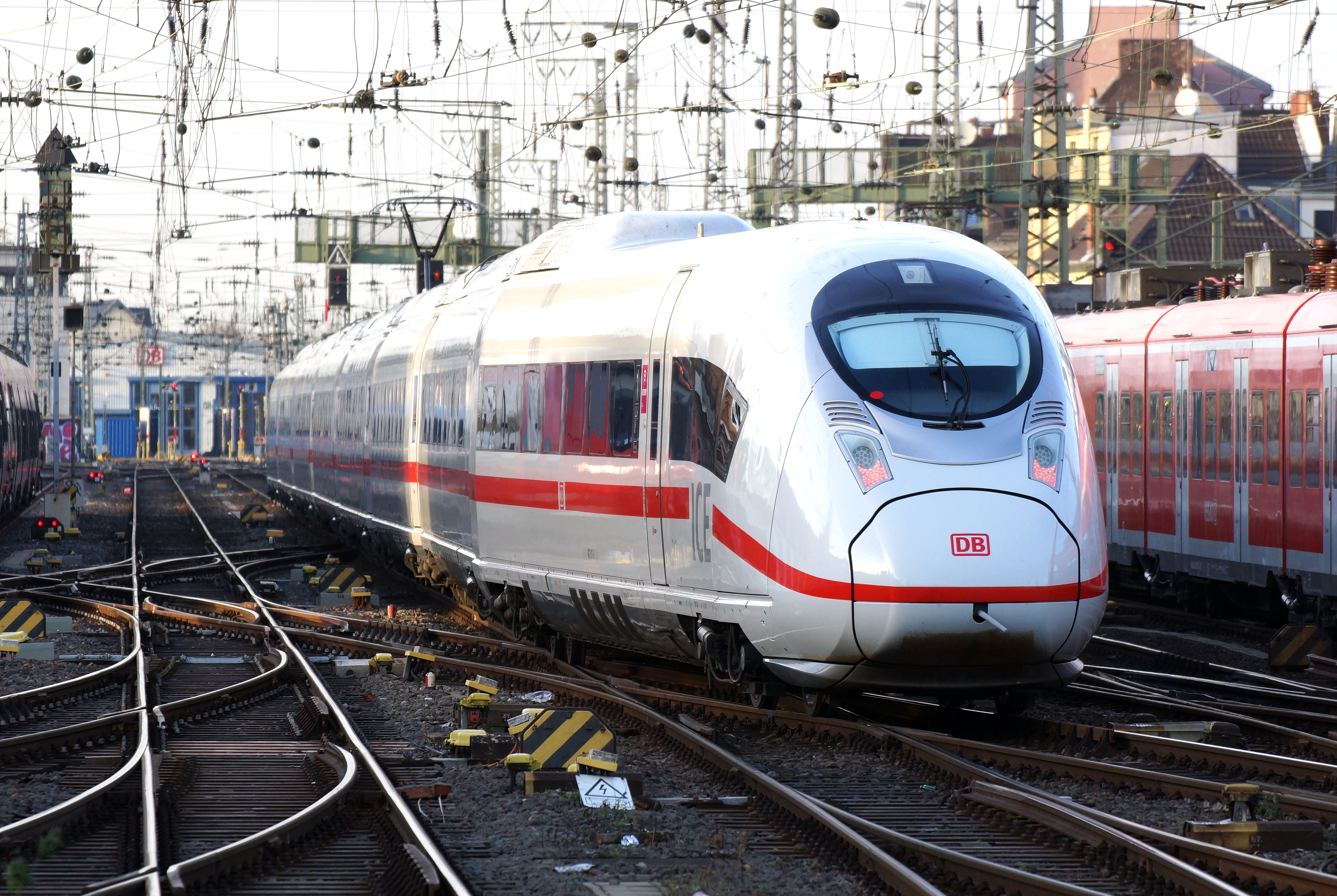 DBAG Class 407 in the near of Cologne main station.